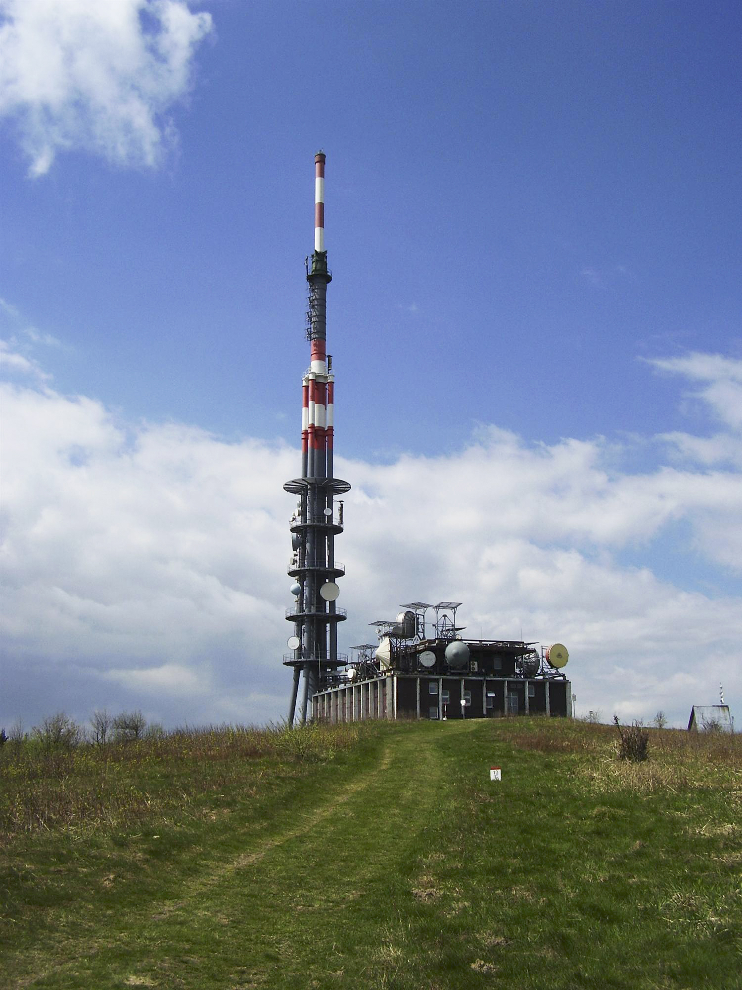 Tower on Velká Javořina in Bílé Karpaty near Slovak border